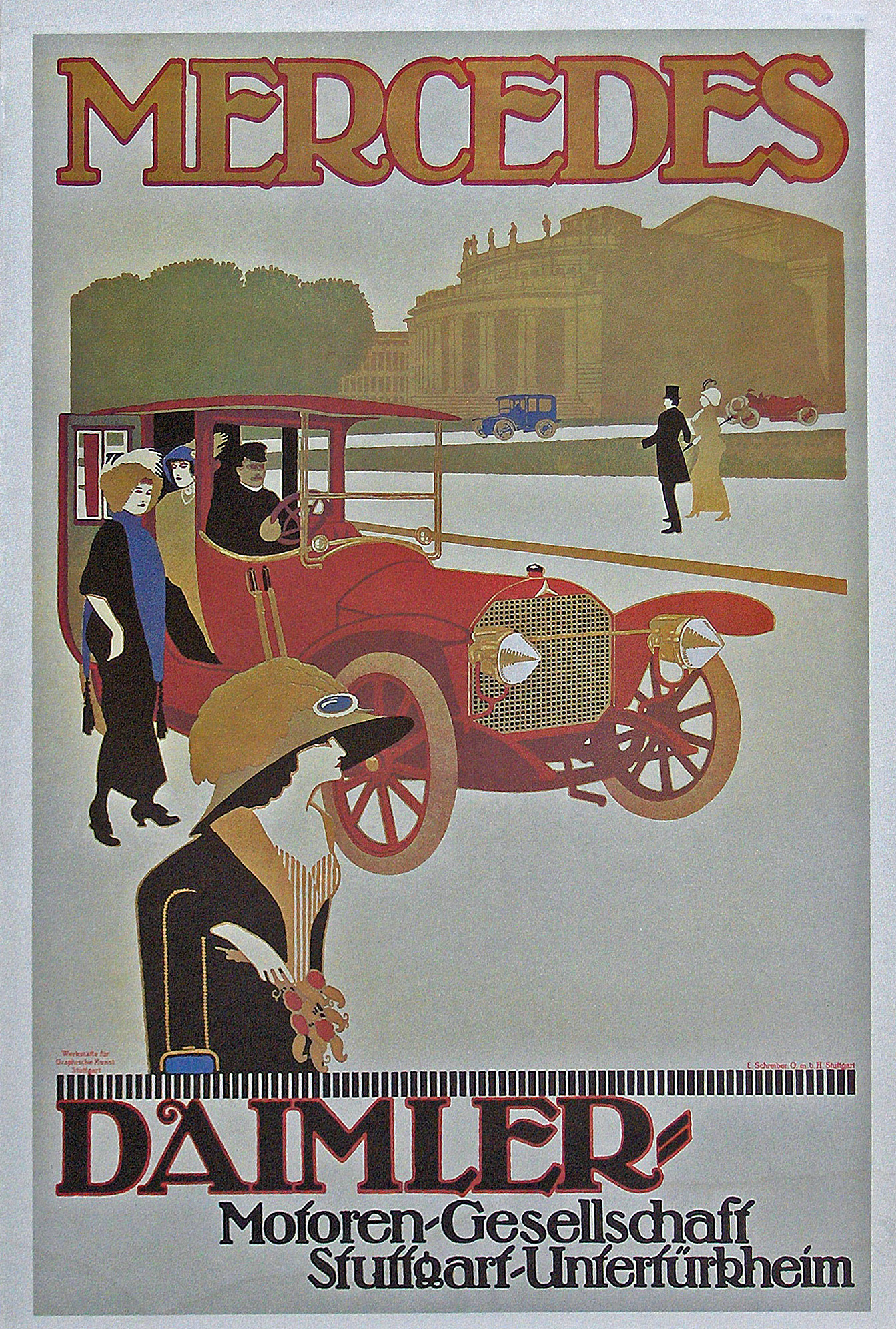 Poster for a Mercedes double phaeton; Daimler Motoren-Gesellschaft, Stuttgart-Untertürkheim; about 1908; private collection